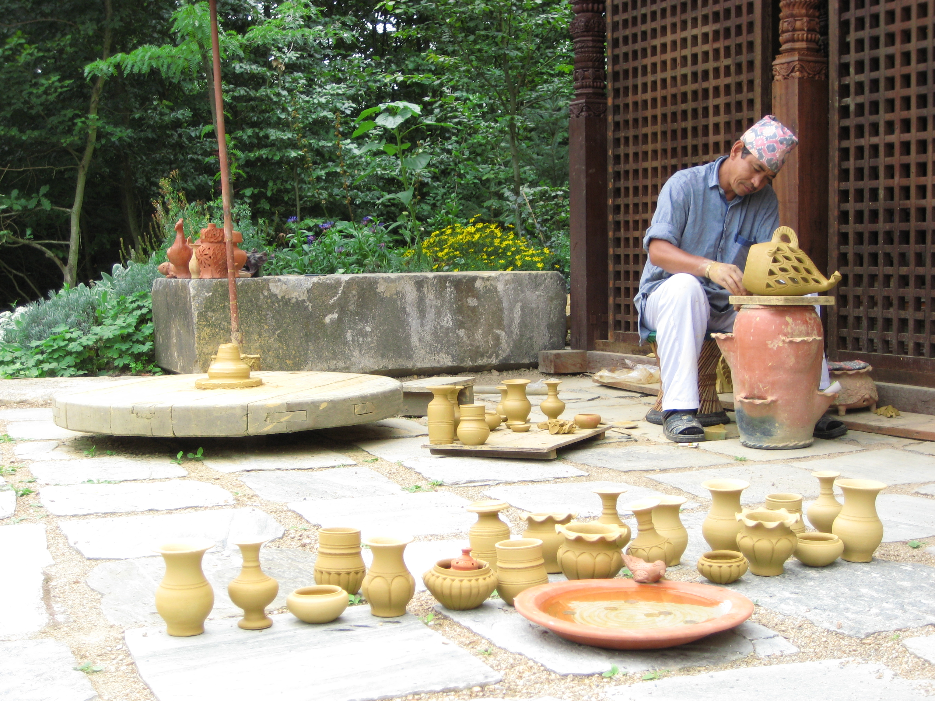 The Nepal Himalaya Pavillon from the Expo 2000, rebuilt with a small botanical garden at Wiesent near Regensburg